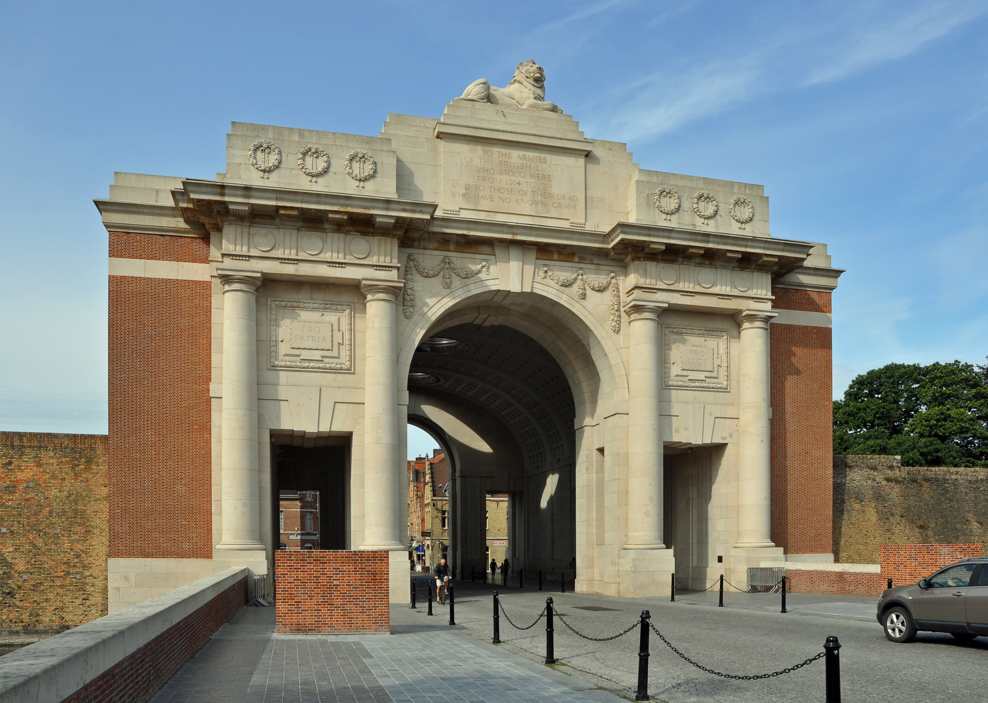 Ypres (Belgium): Menin Gate Аҧсшәа: Ypres (Belgique) : Porte de Menin